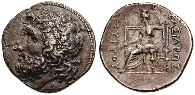 Italia, Magna Graecia, Bruttium, Lokroi Epizephyrioi (nowdays Locri). Under Pyrrhos, King of Epeiros. Circa 280-278 BC. AR Tetradrachm. 16.38 g Head of Zeus left, in oak wreath; A below ΠΥΡΡΟΥ ΒΑΣΙΛΕΩΣ (BASILEWS PURROU), Dione seated left, holding scepter in right hand, raising veil with left. SNG Lloyd 656 (same dies); Boston MFA 944 (same obverse die); SNG Lockett 1650 var. (no A); Pozzi 1287 var. (same). note: flan crack. CNG note: Pyrrhos was the last and greatest of the 'champions' to support the Hellenic cause in Italy. He had originally come to Italy at the request of Tarentum to help against the rising dominance of Rome. Pyrrhos' army won important battles but his losses were so high he was unable to keep his gains, thus the phrase 'Pyrrhic victory'. This coin, considered a masterpiece of Hellenistic coinage, features a majestic head of the Dodonian Zeus on the obverse. On the reverse is Dione Naïa, Zeus' consort at Dodona.